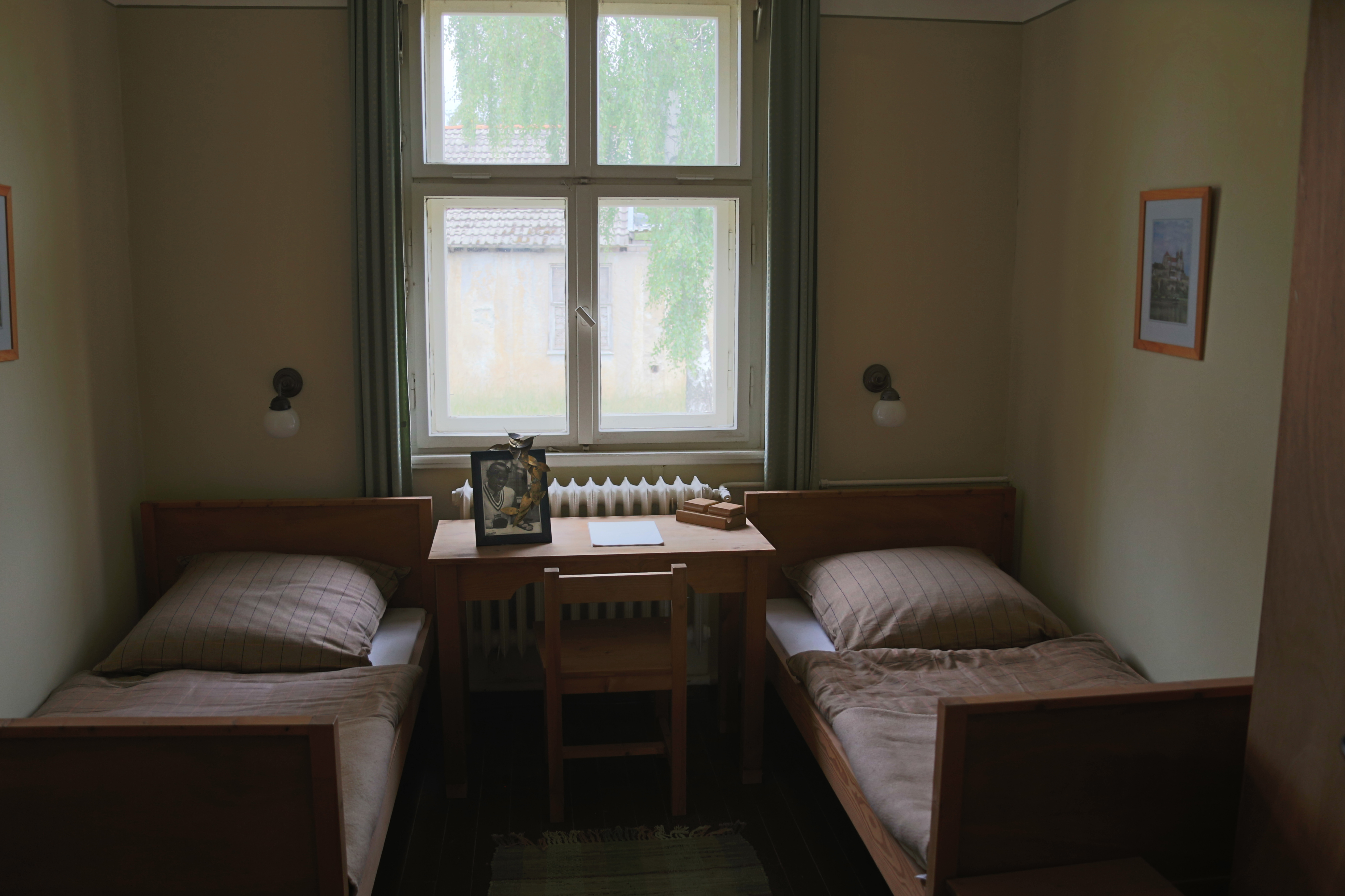 Jesse Owen's room in the 1936 Olympic Village in Berlin as seen today.